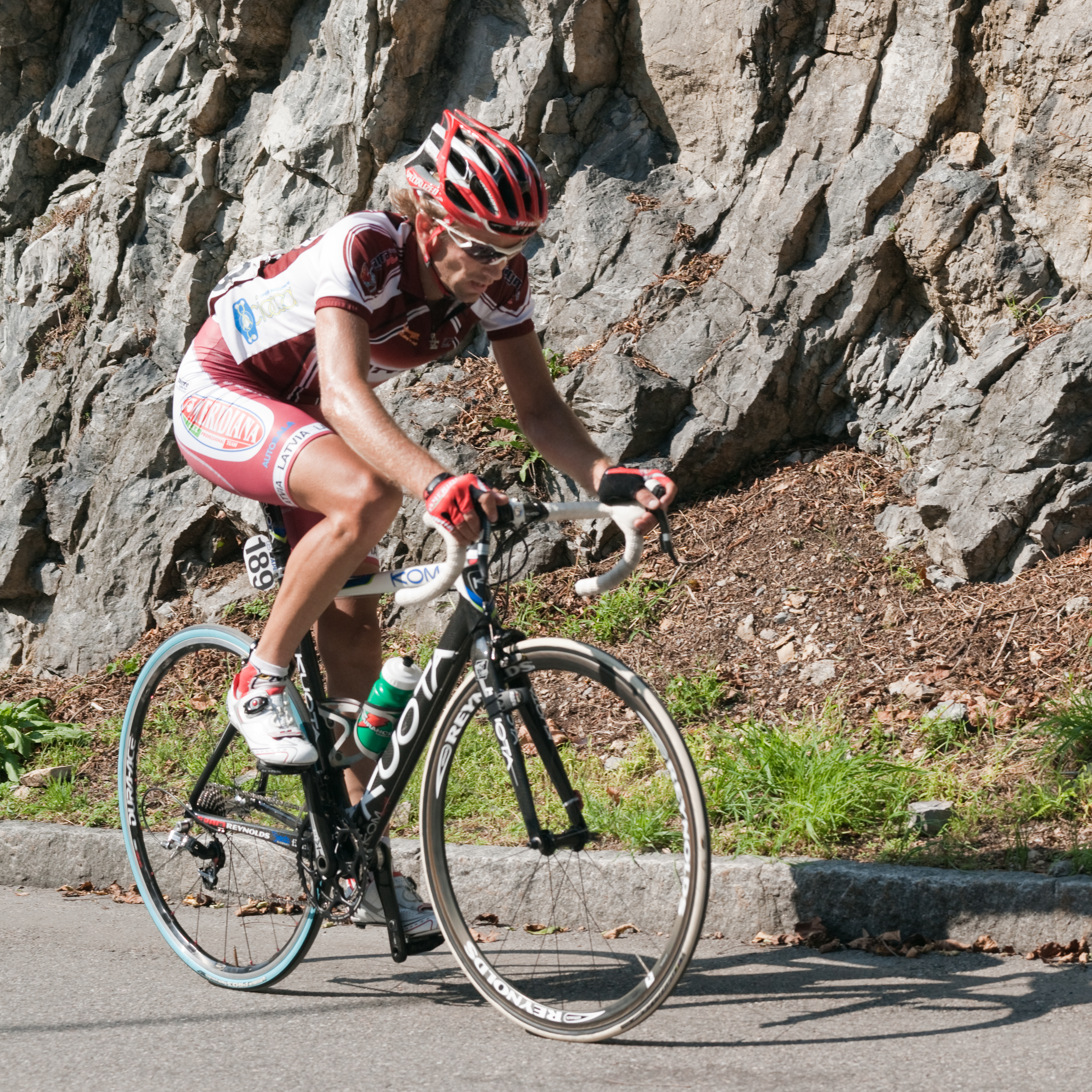 Olegs Melehs during the 2009 UCI Road World Championships in Mendrisio, Switzerland.